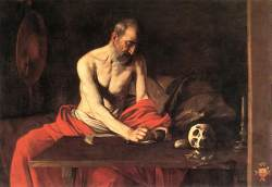 St Jerome, by Michelangelo Merisi da Caravaggio, 1607, at St John's Co-Cathedral, Valletta, Malta. Caravaggio, Saint Jerome Writing 1607. A painting of Saint Jerome dating from 1607 by Italian early-17th century painter Caravaggio. One can notice the warm colours (red, pink, peach, light-brown) used in this painting. Such styles were popular in 17th century Italian art.